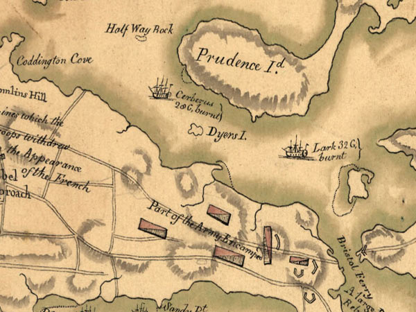 Detail from a 1778 map, drawn by a French military engineer, showing the precise Wreck Sites of HMS Cerberus and HMS Lark, two Royal Navy frigates scuttled upon the arrival of a French fleet in July 1778.